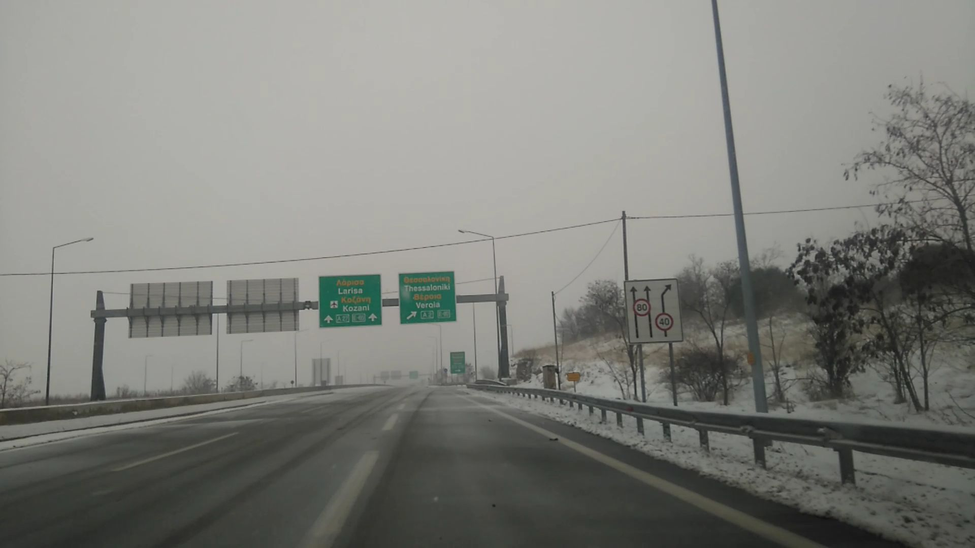 Motorway 27 (A27) exit to Motorway 2 (towards the east) at the Kozani I/C (12), Greece on 9 January 2019